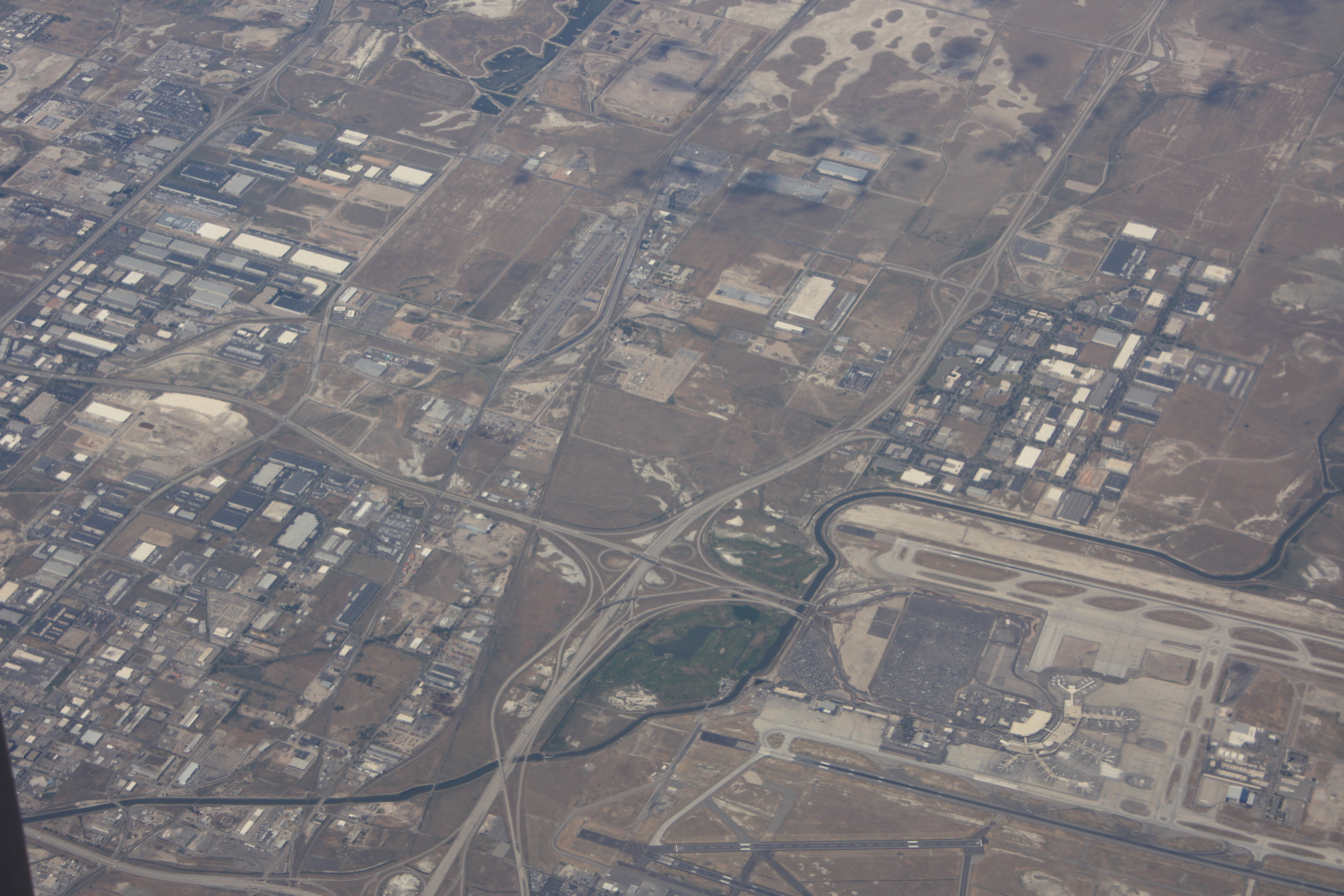 Taken on my flight from Albuquerque to Seattle. That cloverleaf interchange and green area just below center are the Wingpointe Golf Course and the UT-154/I-80 (Bangerter Highway) interchange, with the Salt Lake City International Airport (SLC) just to the right of the golf course.